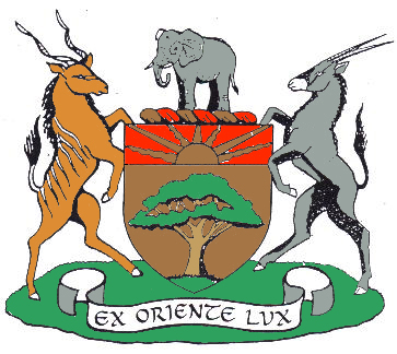 Coat of arms of Gobabis, Namibia.